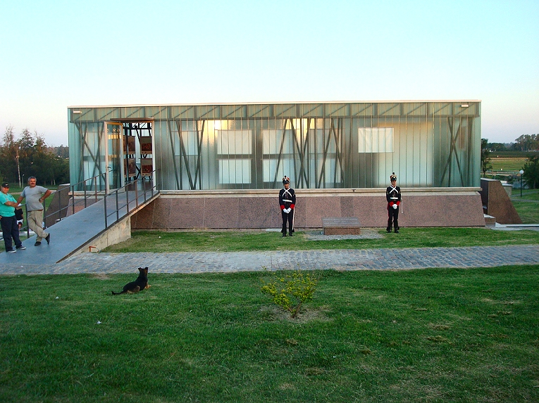 Pabellón del Bicentenario, Parque Artigas memorial, Las Piedras, Canelones, Uruguay.